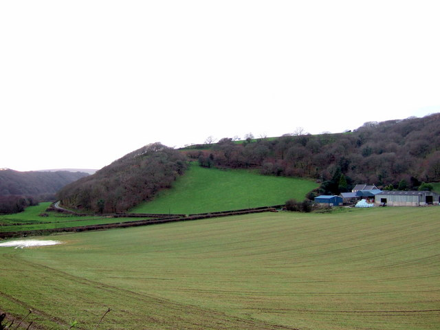 Llanerch meadows at the top of Cwm Gwaun The farm of Llanerch (or Llannerch on older maps) - the name means meadow or clearing - stands between the watersheds of the Gwaun to the south west, in this view, and the Clydach to the north east. Nearby is the alder carr SSSI of Gallt Llanerch.